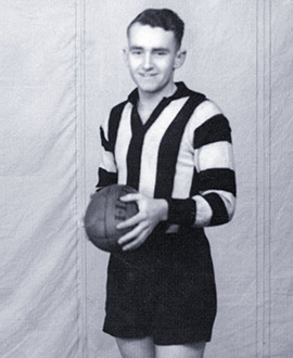 Photograph of Des Fothergill in the late 1930s